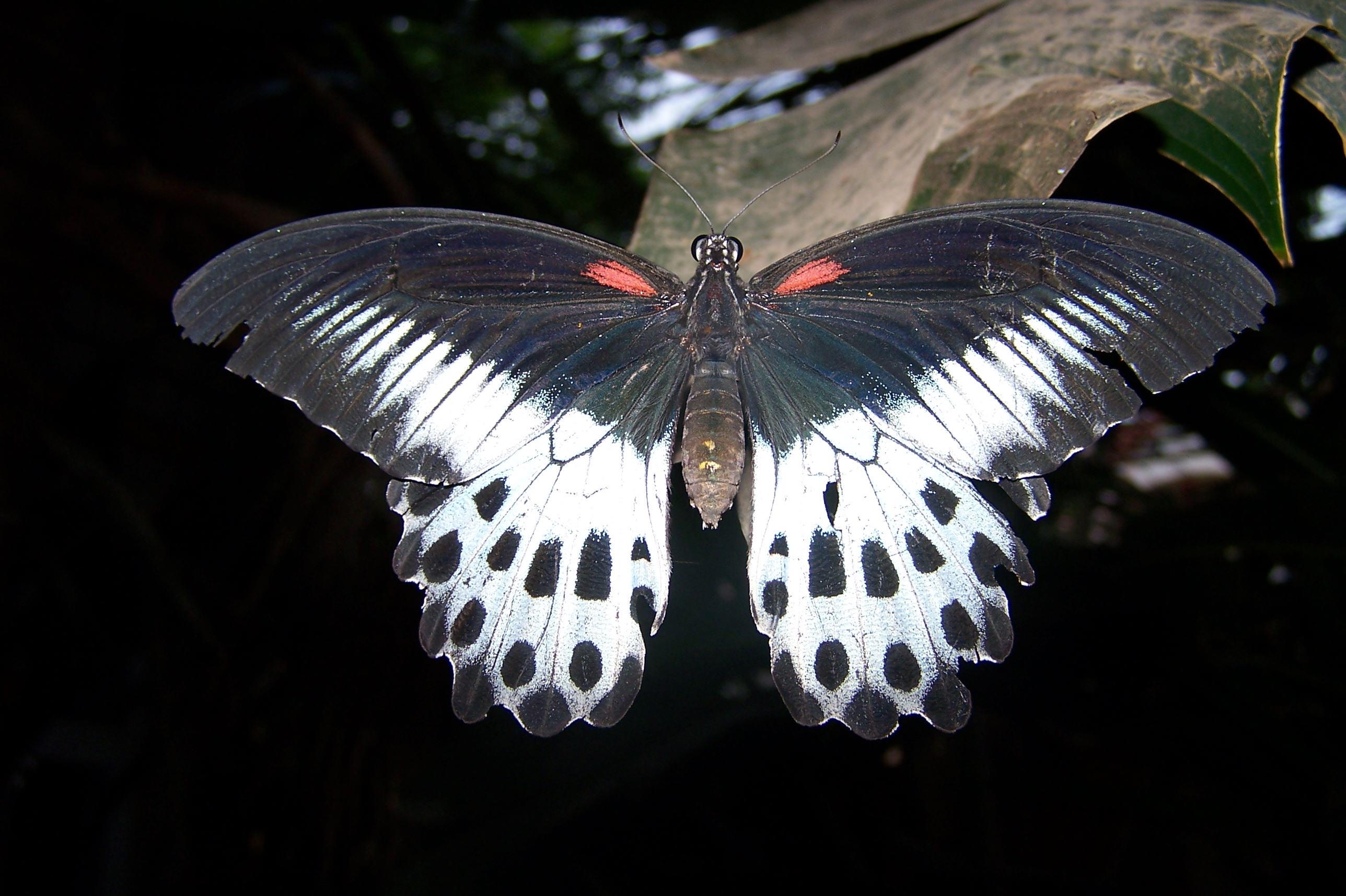 Female specimen with crimson streak on the upperside of the fore wing